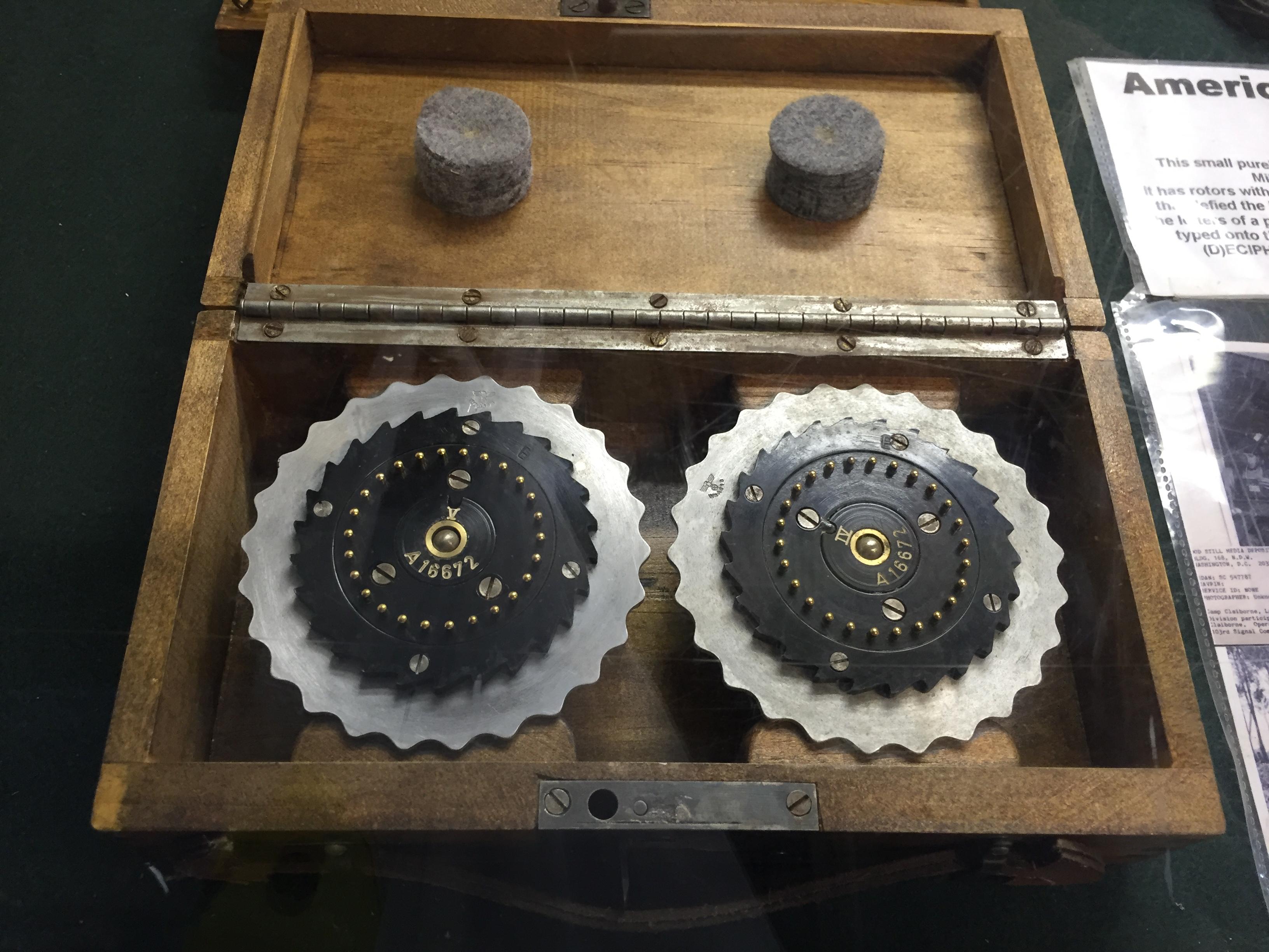 Enigma cipher machine extra rotor box. Displayed by at the MIT Flea Market.